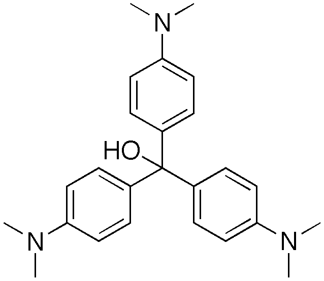 chemical structure of Methylrosaniline